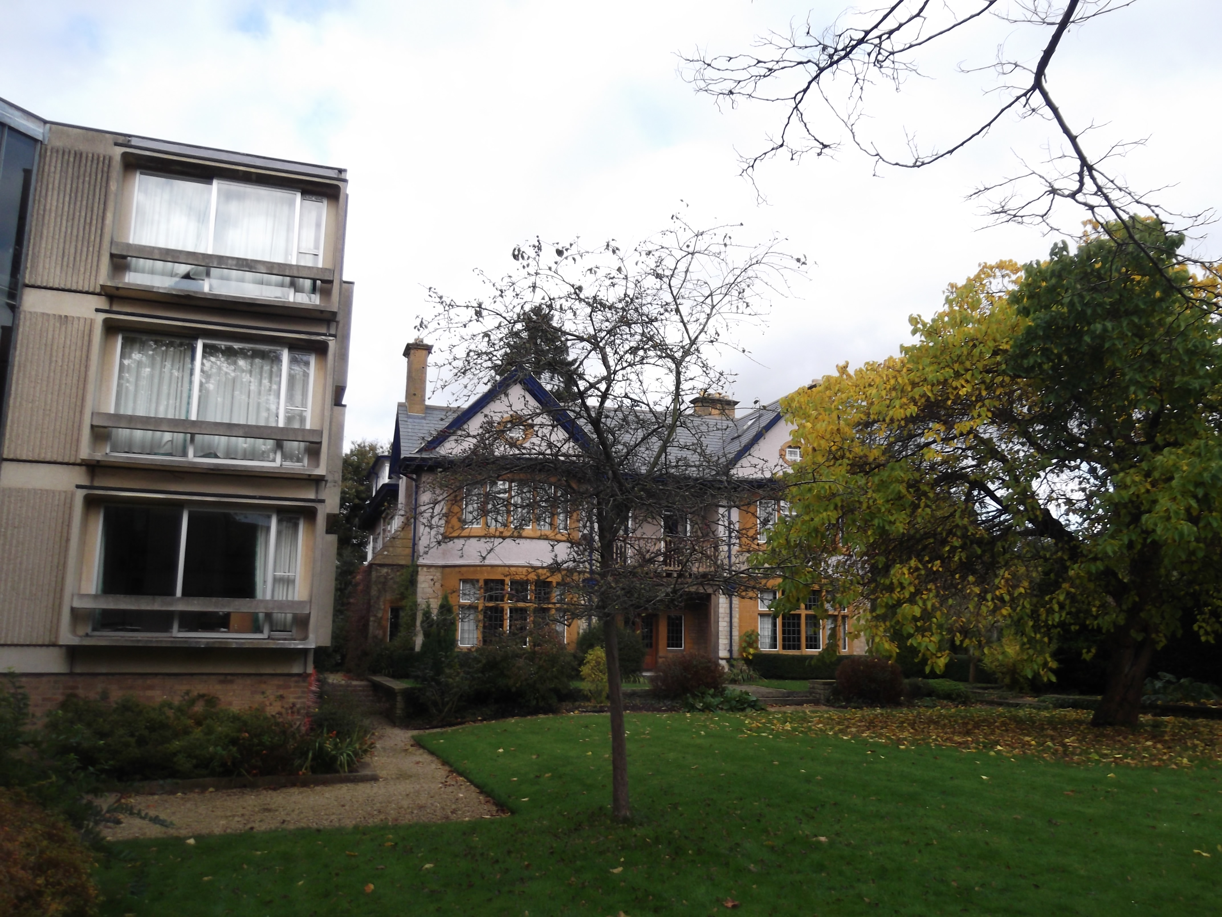 Redcliffe-Maud House with modern residential building for students at the University College Annex off Staverton Road, north Oxford, England.